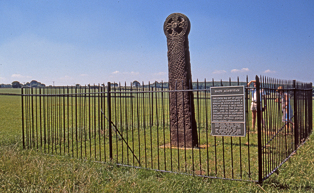 Maen Achwyfan - Whitford, near to Whitford, Flintshire/Sir y Fflint, Great Britain. This pre-Norman cross near Whitford, was placed here in about 1000 AD. It is finely carved, and shows a northern Britain or Scandinavian influence. Link